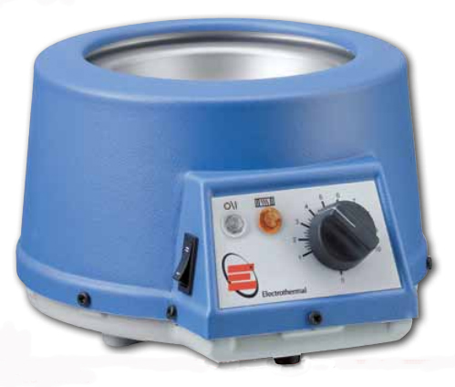 EM series product manufactured by Electrothermal